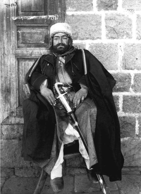 A photograph of Shibli al-Atrash, a Druze chieftain and the Ottoman qaimaqam in Ara (Ira), near as-Suwayda in Syria.